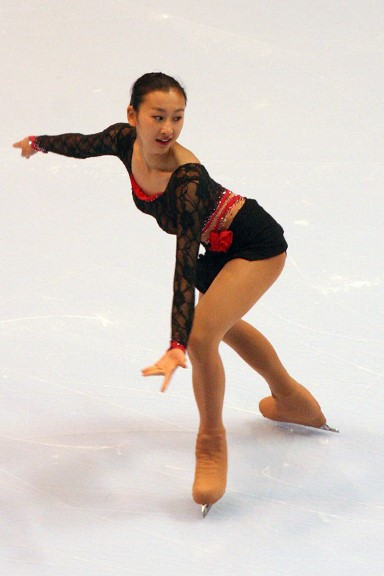 Mai Asada at the 2006 Skate America.